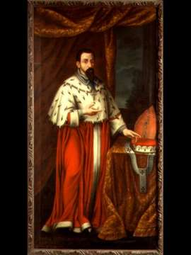 Ernest of Bavaria